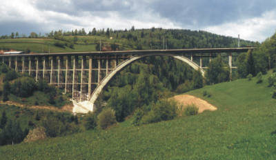 Railway viaduct Caracau in Romania